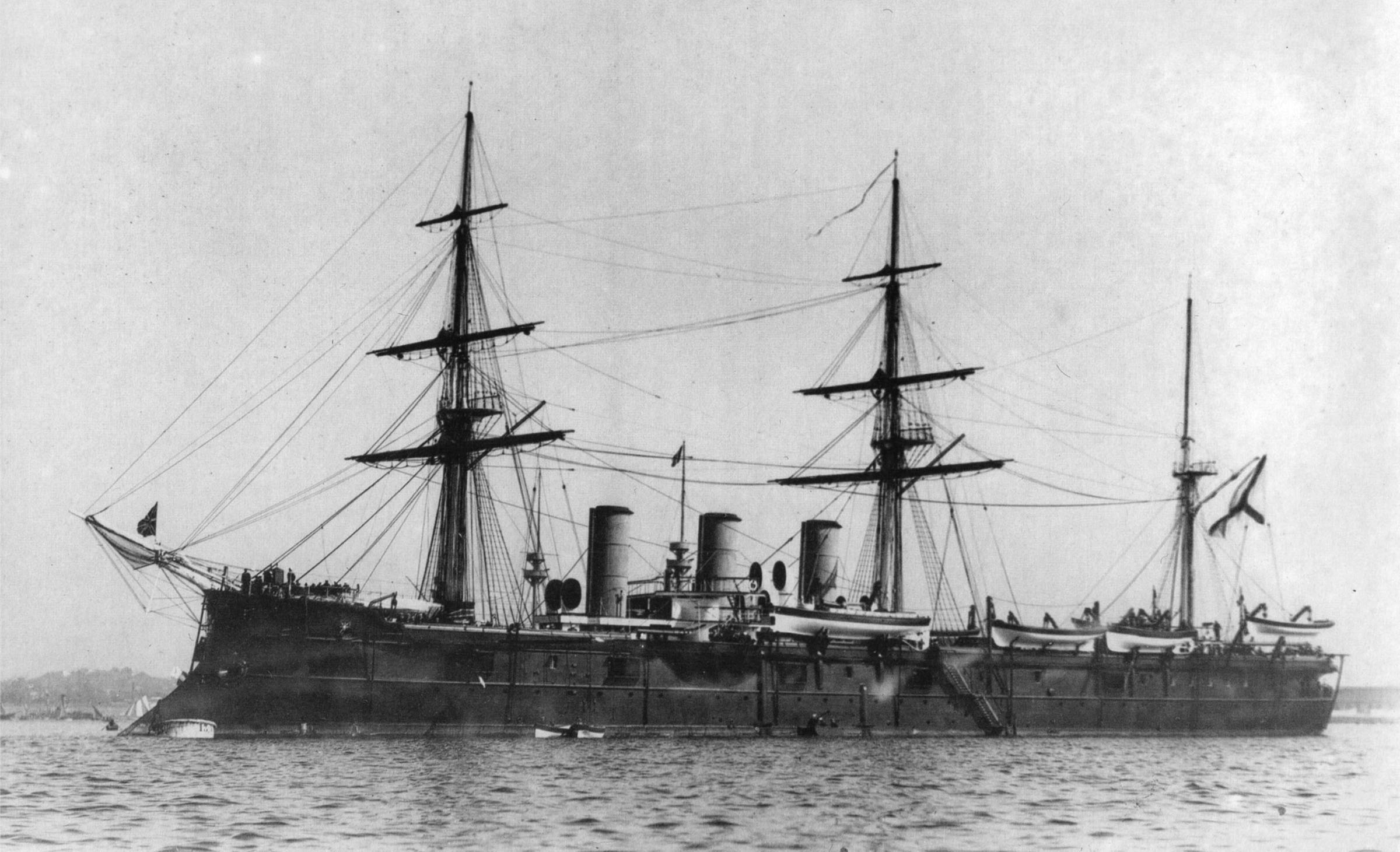 Imperial Russian cruiser Pamyat' Azova.